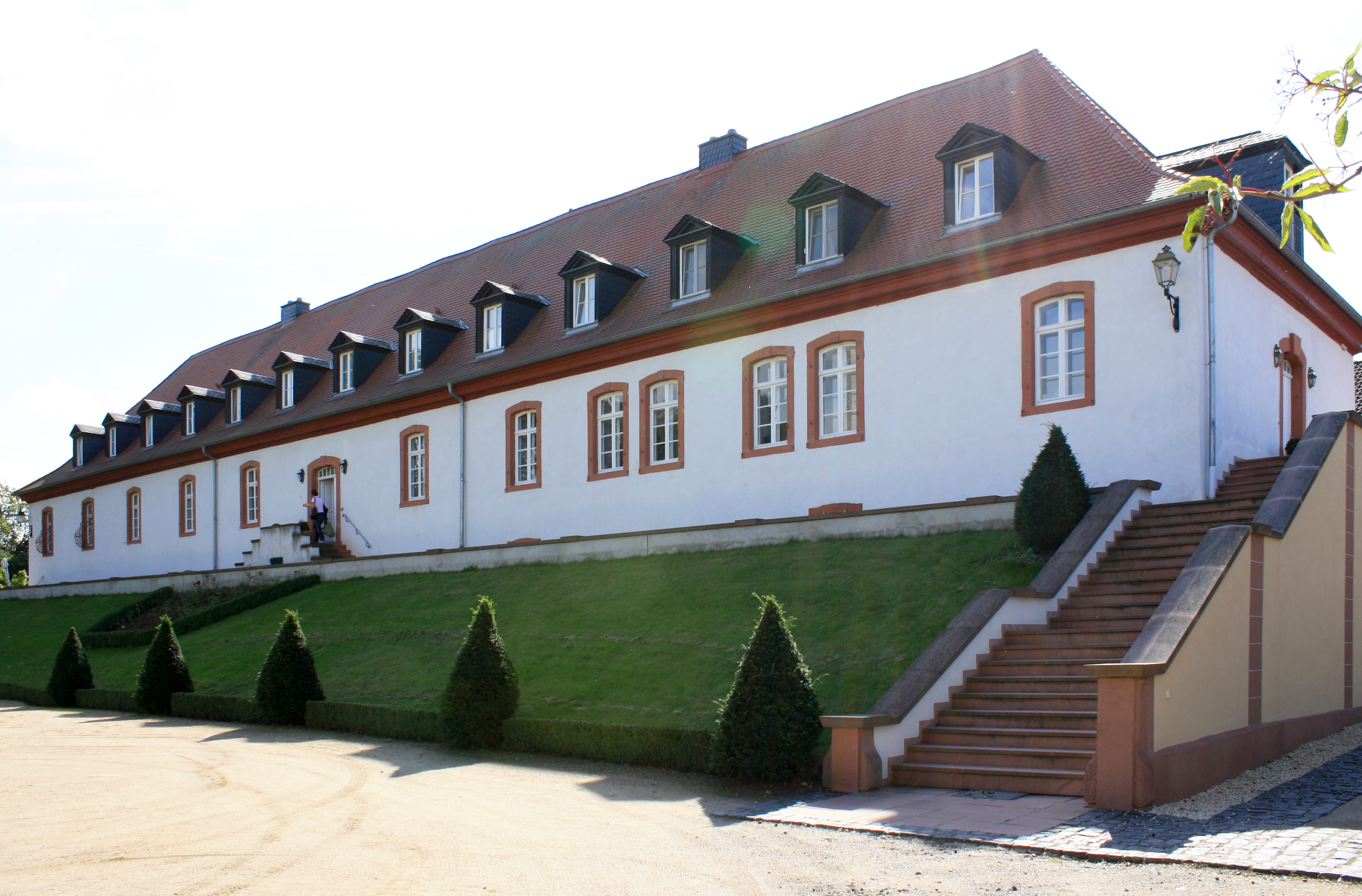 Frankenstein castle in Ockstadt, Friedberg